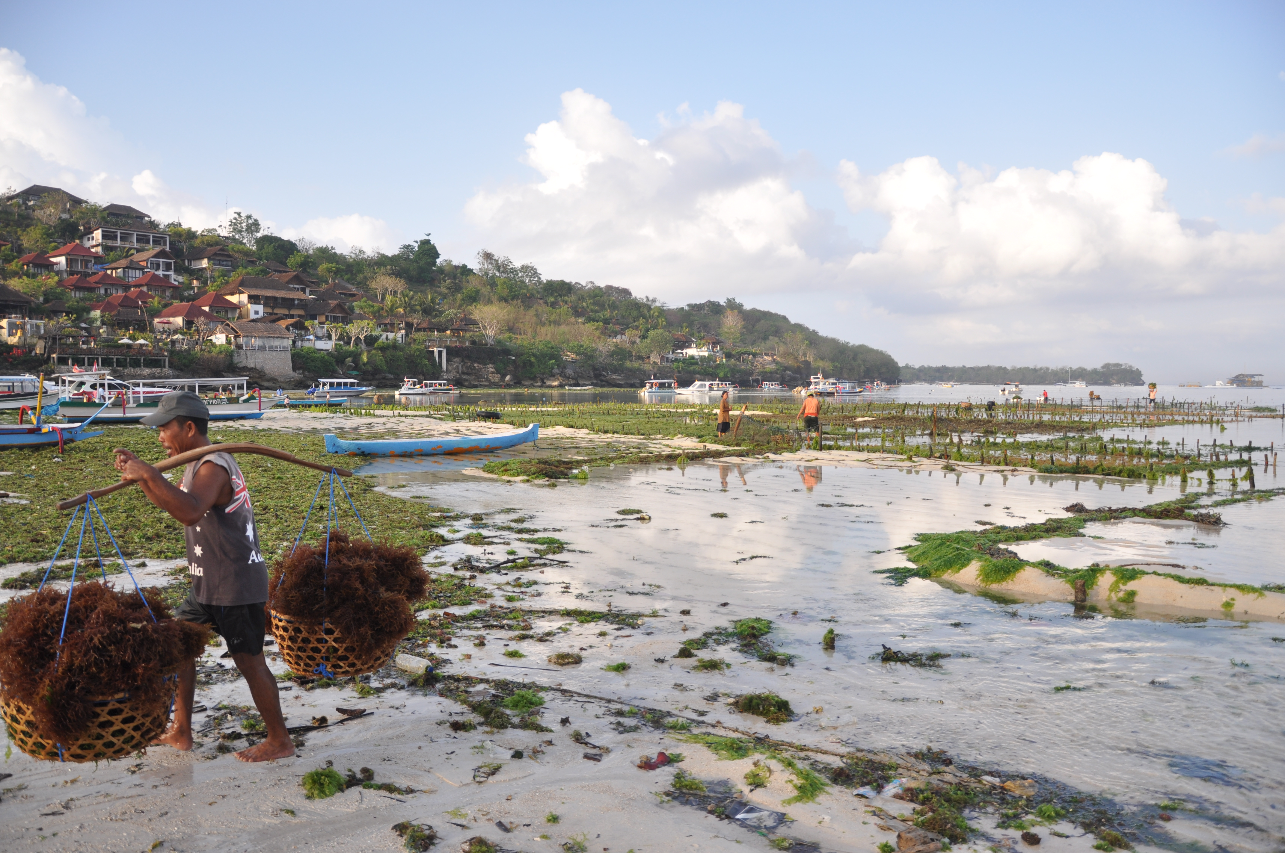 The mainstay of the local economy - seaweed farming. Local man farming seaweed. Local man farming seaweed, Jungut Batu Nusa Lembongan.